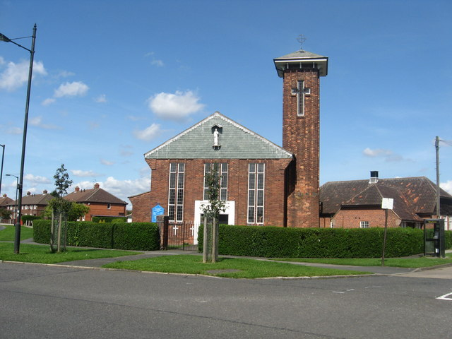 St. Joseph's Roman Catholic Church